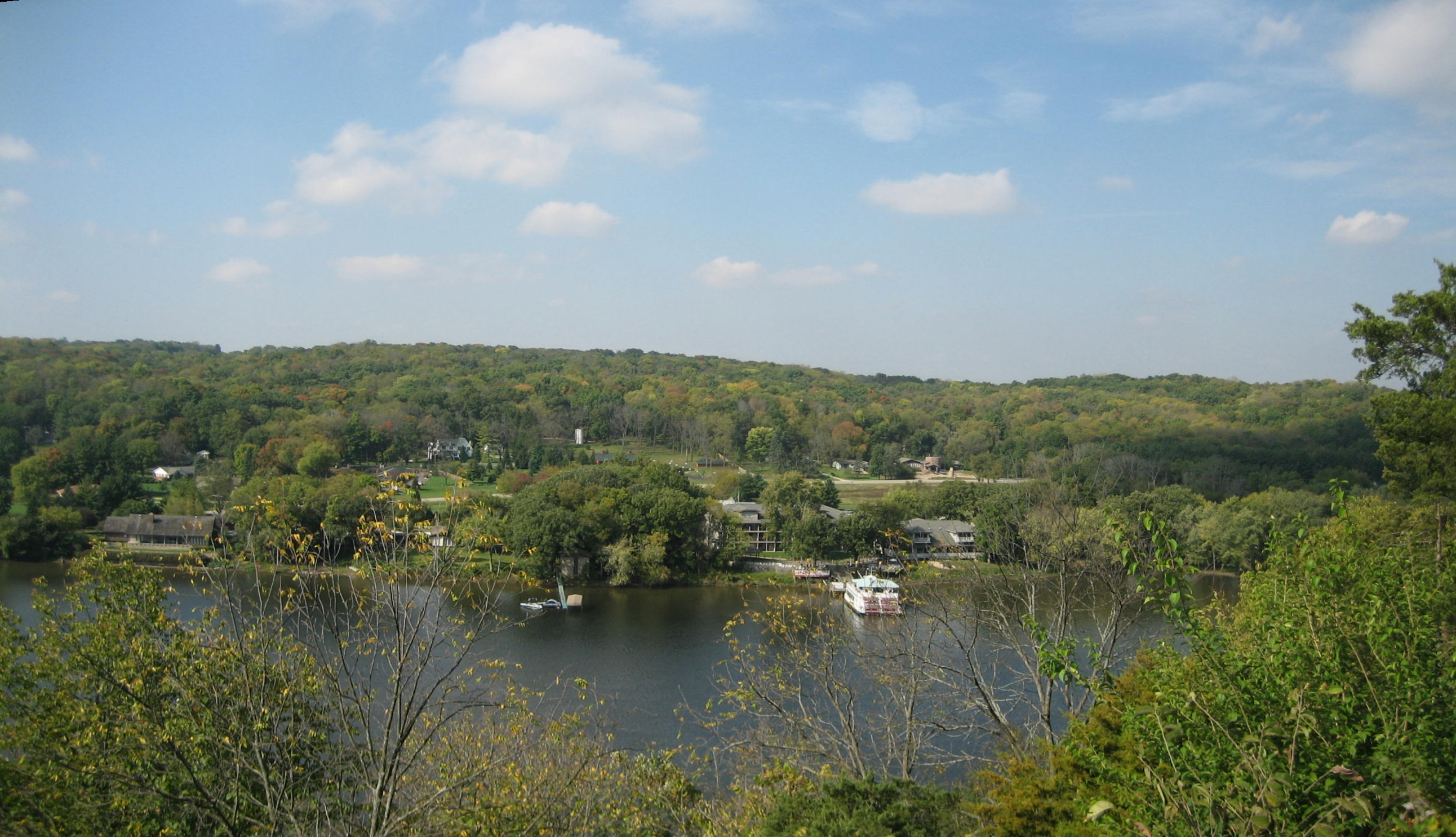 Oregon, Illinois, USA, Scenic overlook above the Rock River, Lowden State Park.